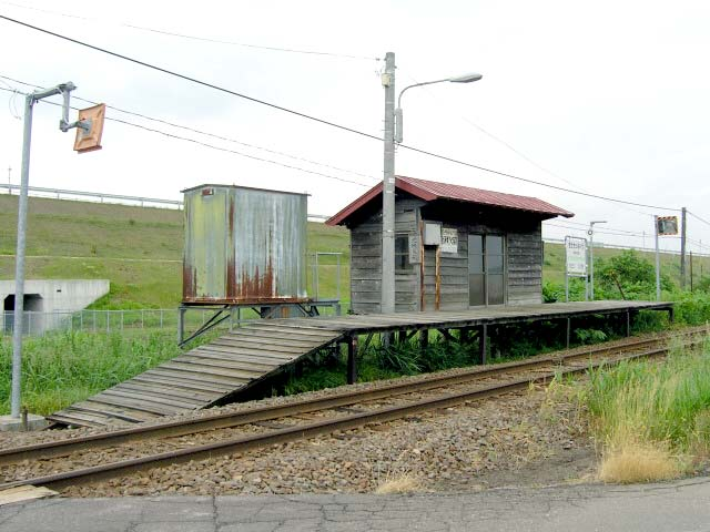 Kitachippubetsu Station on Rumoi Main Line, Japan